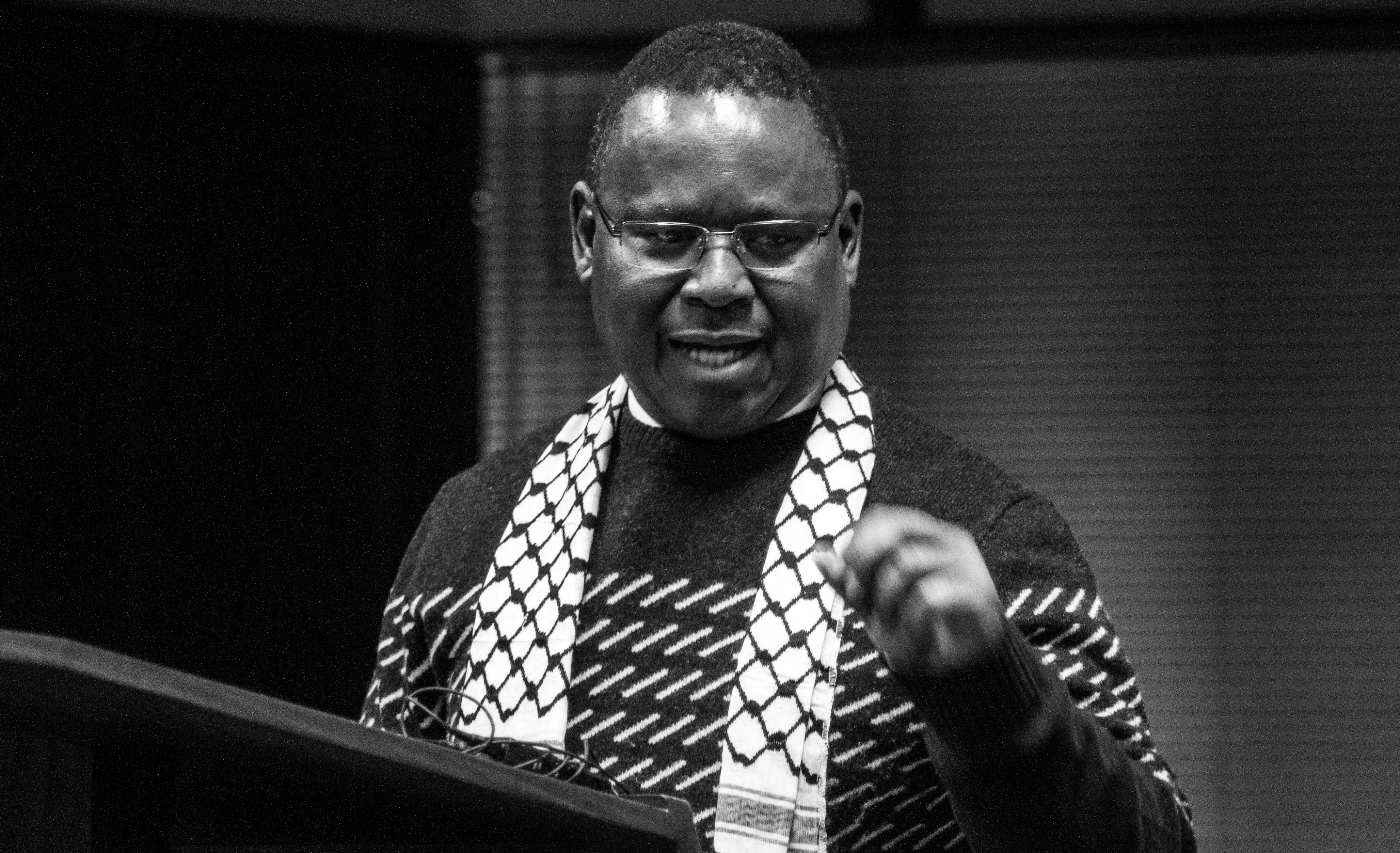 Seminar hosted by the University of Johannesburg Palestine Solidarity Forum (UJ PSF), with veterans of the South African struggle: Yasmin Sooka, Farid Esack, Steven Friedman and Frank Chikane